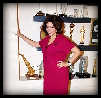 Samira Said at home, Cairo, Egypt